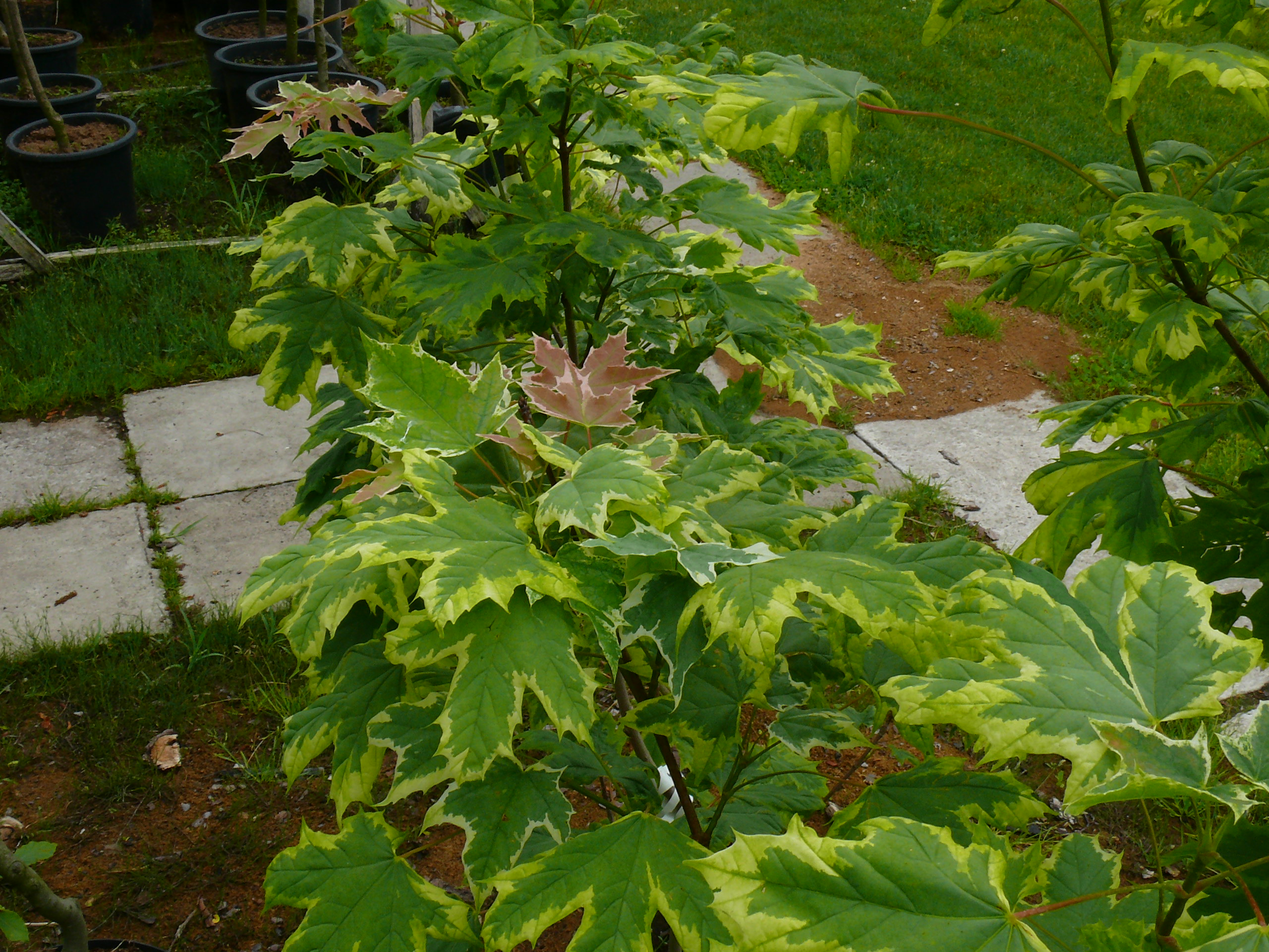 Acer platanoides 'Drummondi'